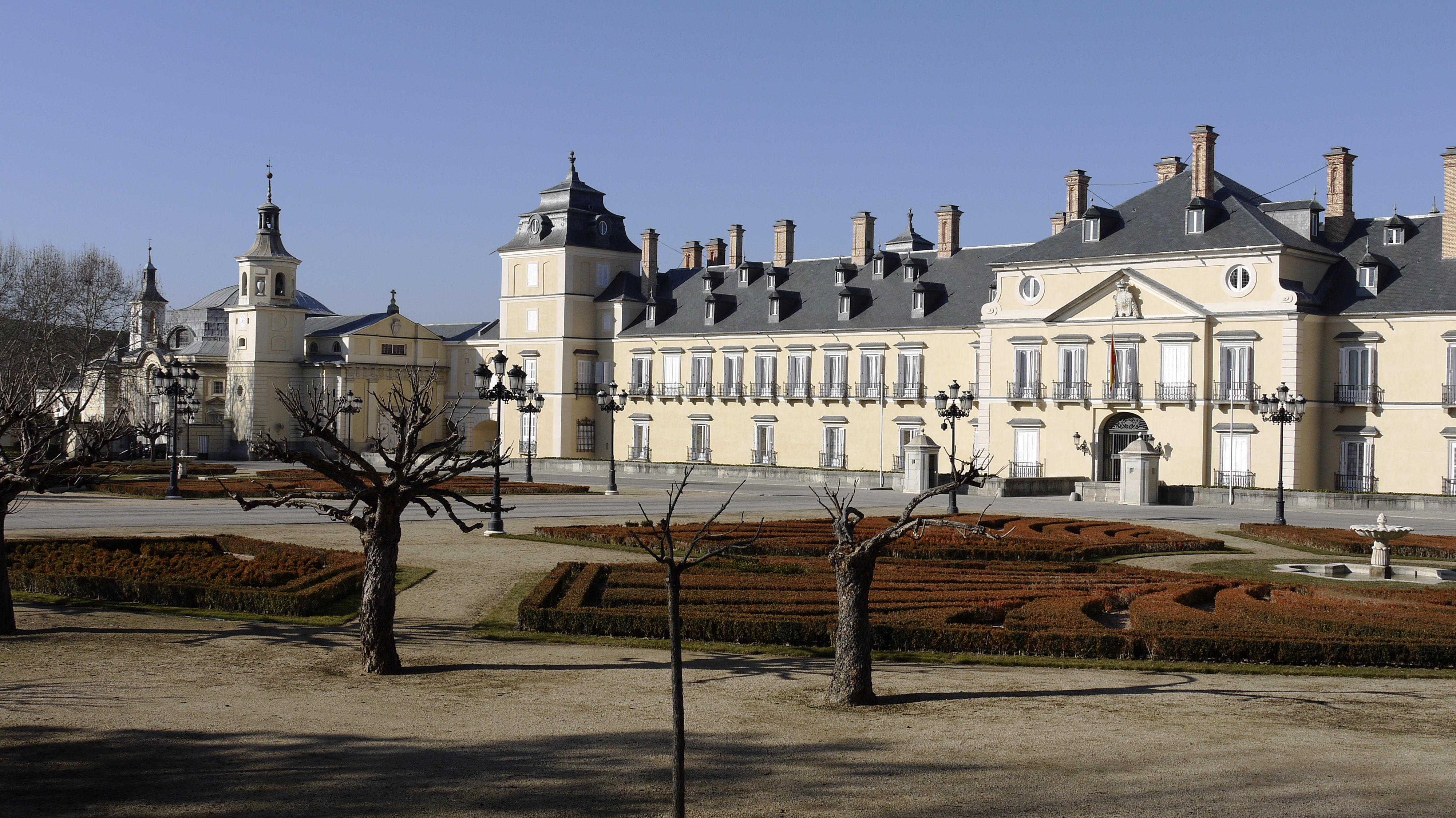 Royal Palace of El Pardo, Madrid, Spain. Side view.